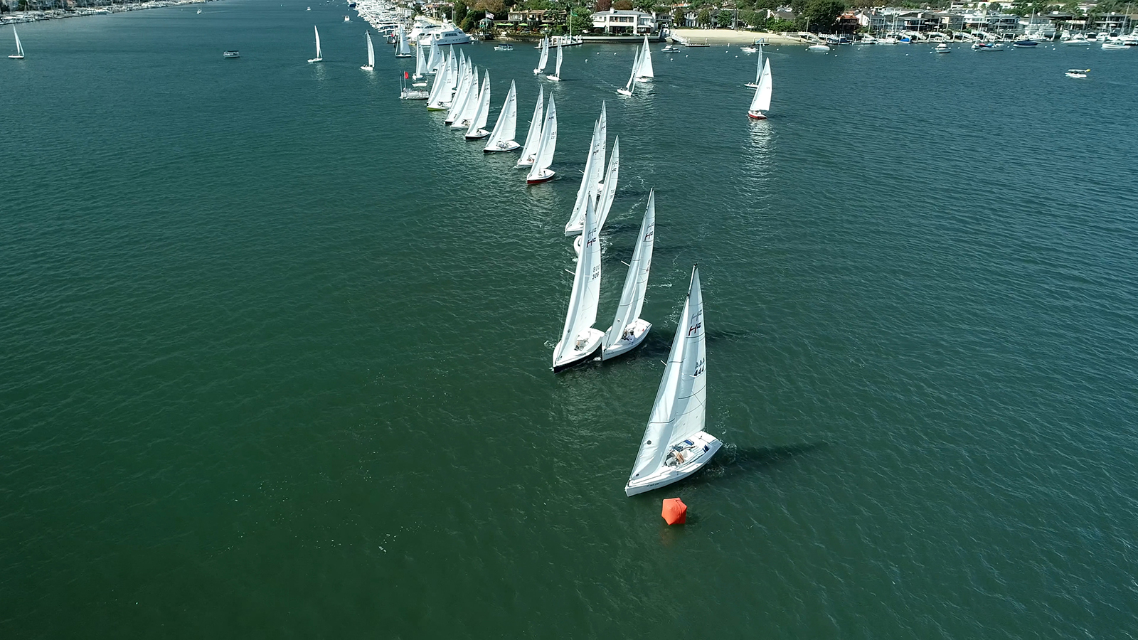 Harbor 20 Fleet Championships Start